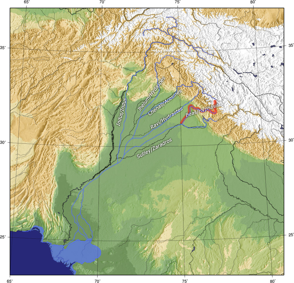 Map with drawing of the antic curse of the rivers and coastline during the Hellenistic period